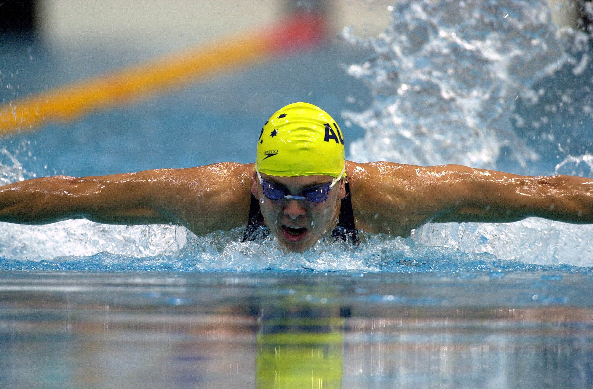 Action shot of Australian swimmer Justin Eveson during the 200m medley SM10 event, 2000 Sydney Paralympic Games, Day 02